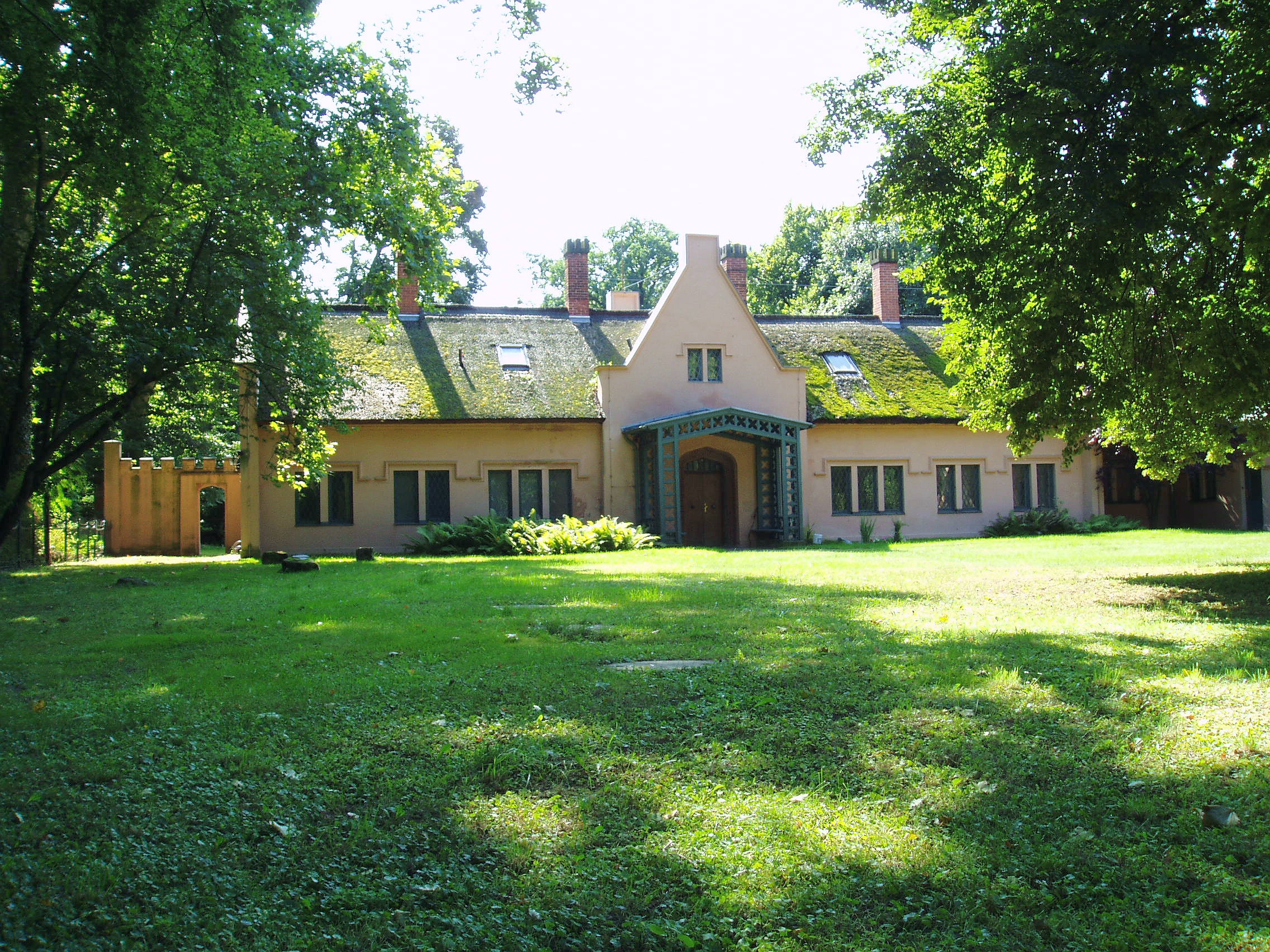 Description: hunting lodge, landscape Klein-Glienicke, Berlin, Germany Author: User:Suse Date: september 2005